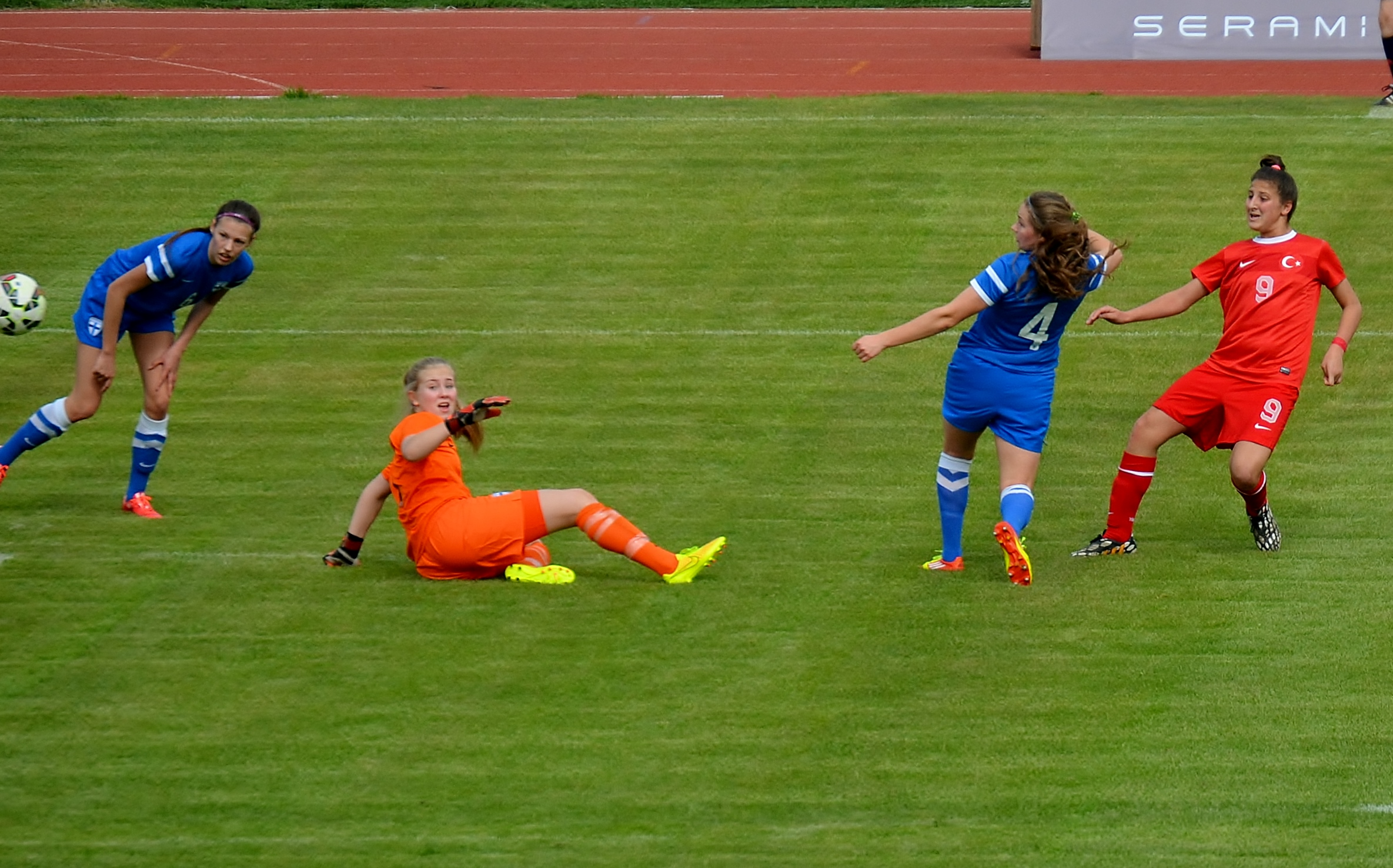 Kader Hançar in the Turkey women's national under-17 football team at UEFA Women's Under-17 Championship qualification Elite round match against Finland